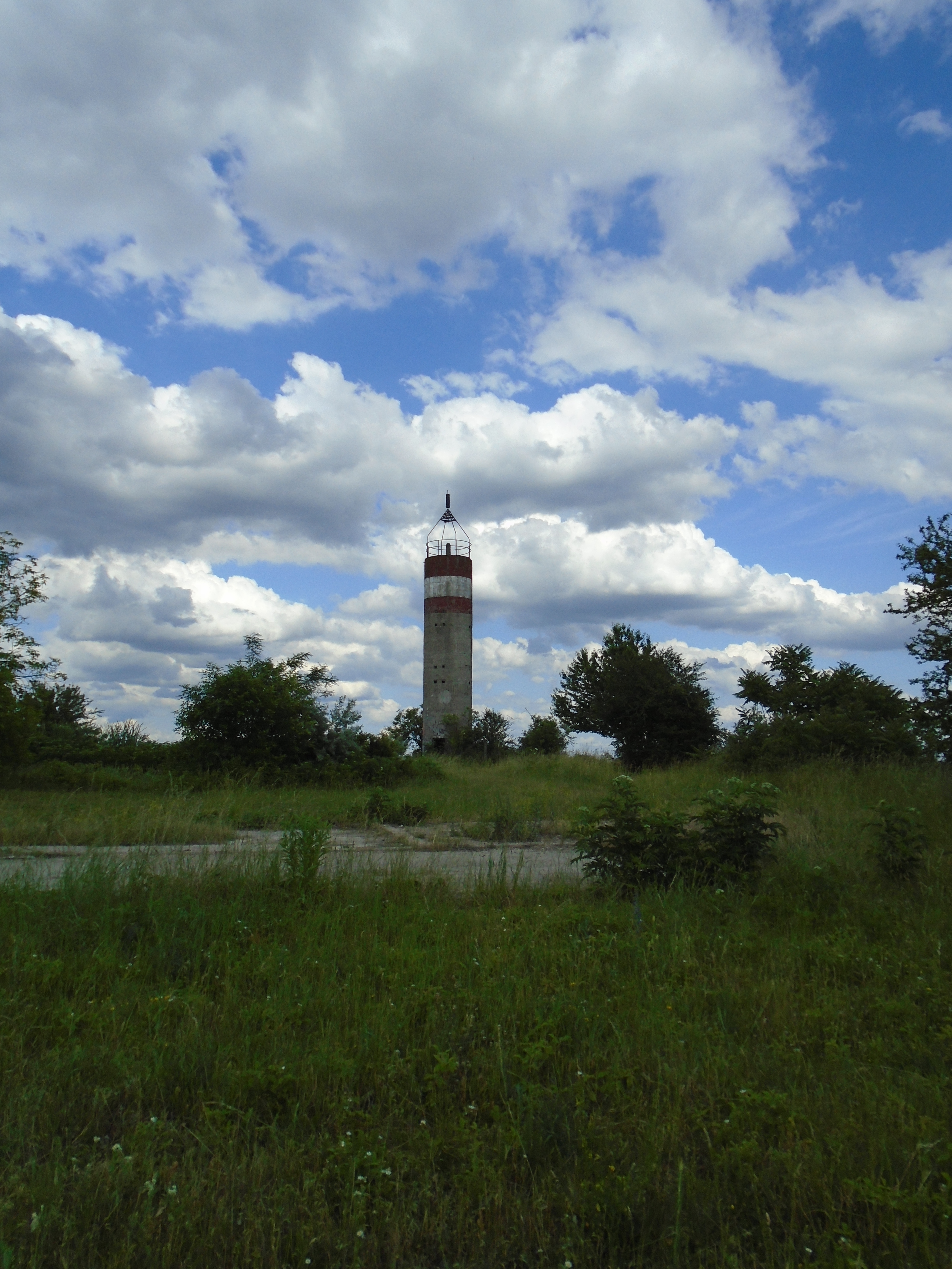 Observation tower in Pécel (on the Bajtemetés).